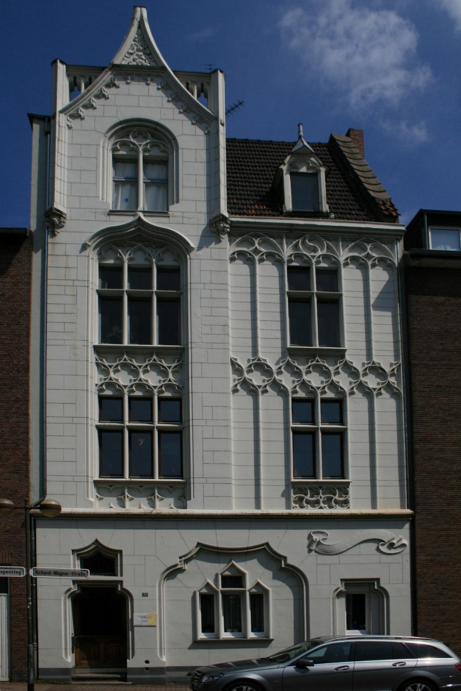 Cultural heritage monument No. R 024 in Mönchengladbach